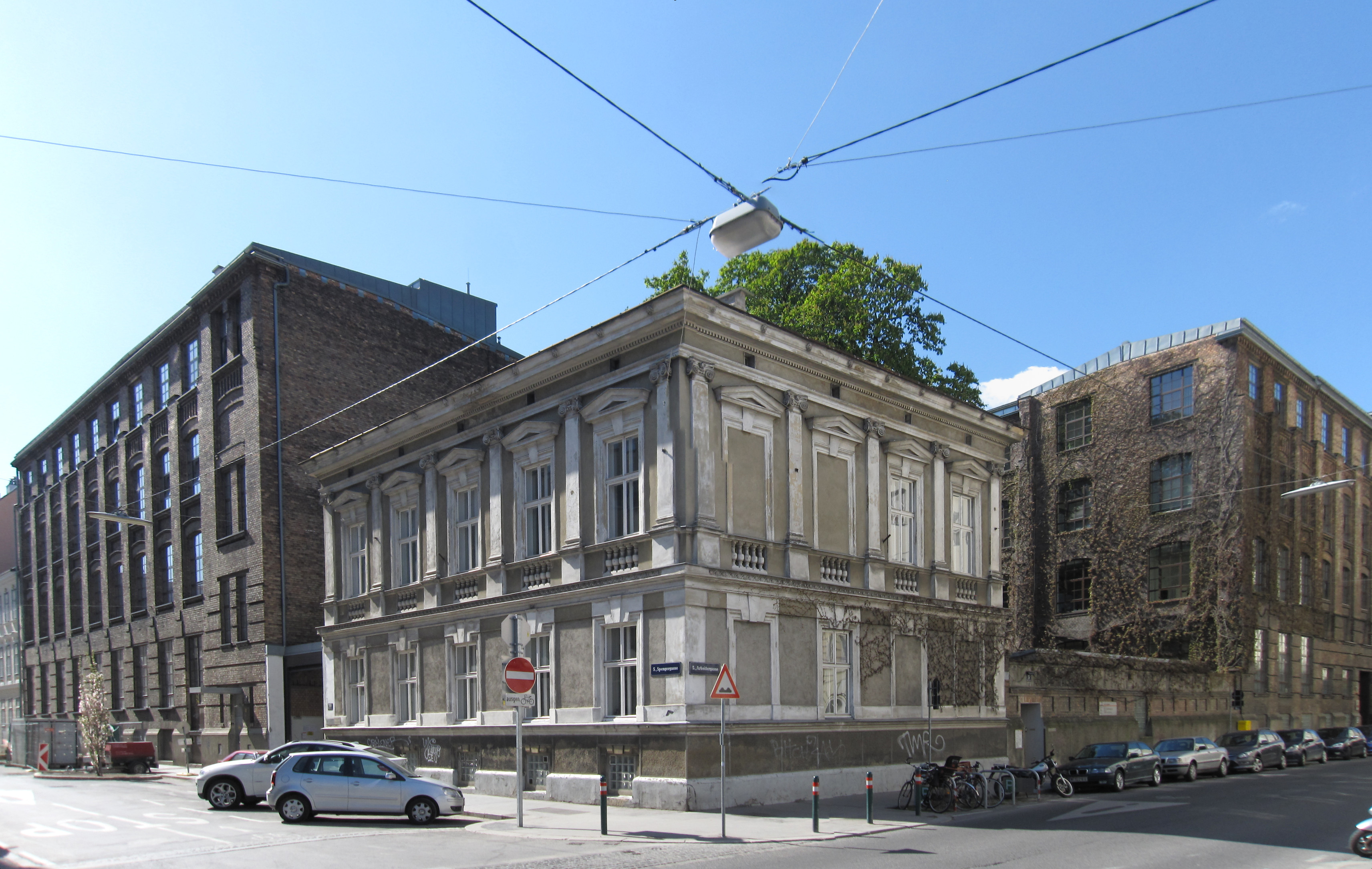 Former headquarters of Christoph Reisser's Söhne in Margareten in Vienna, constructed from 1903-1904.